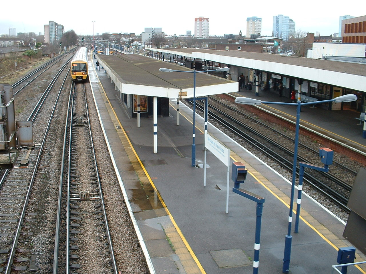 New Cross railway station viewed from New Cross Road looking north